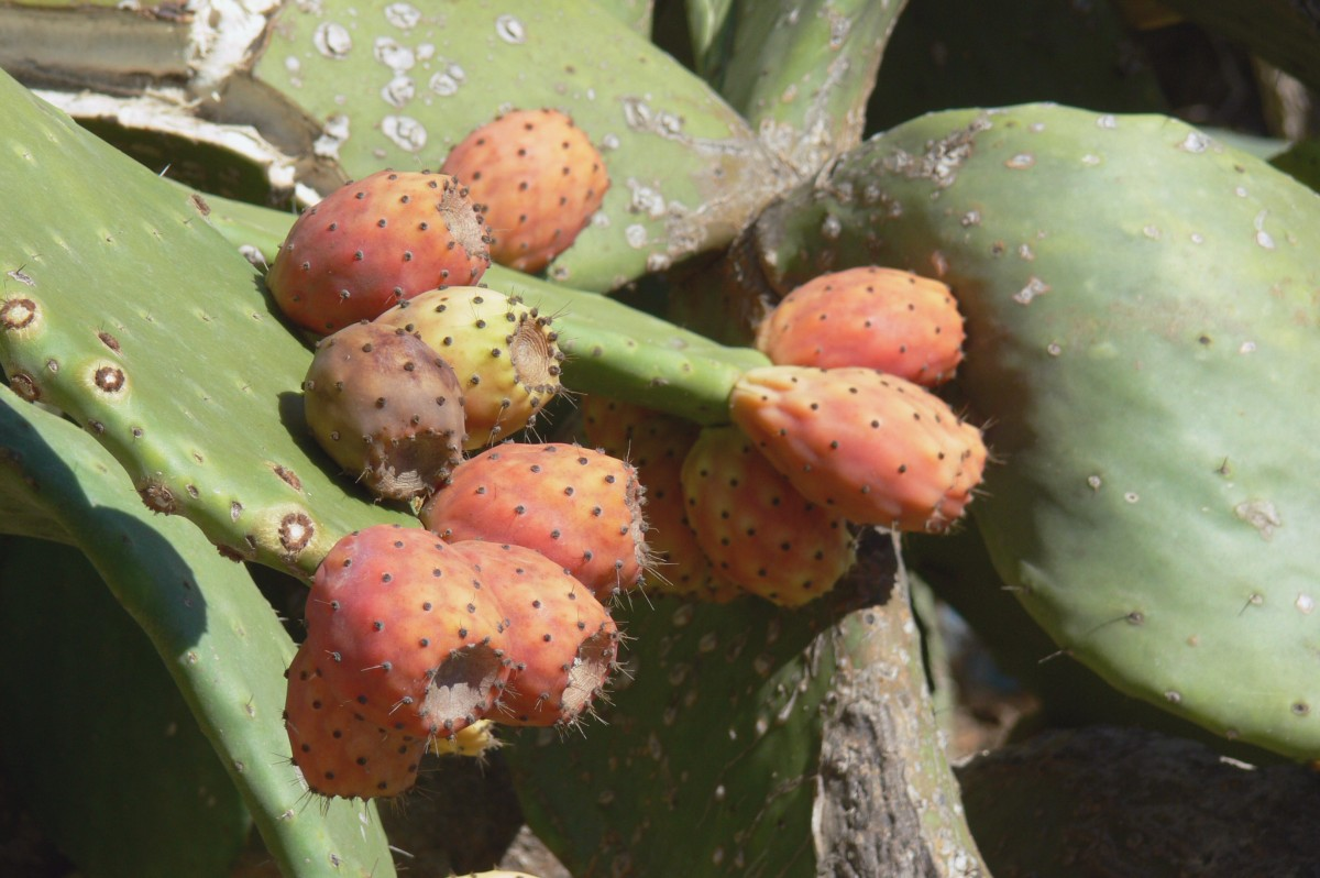 Prickly pear on Gozo, Malta